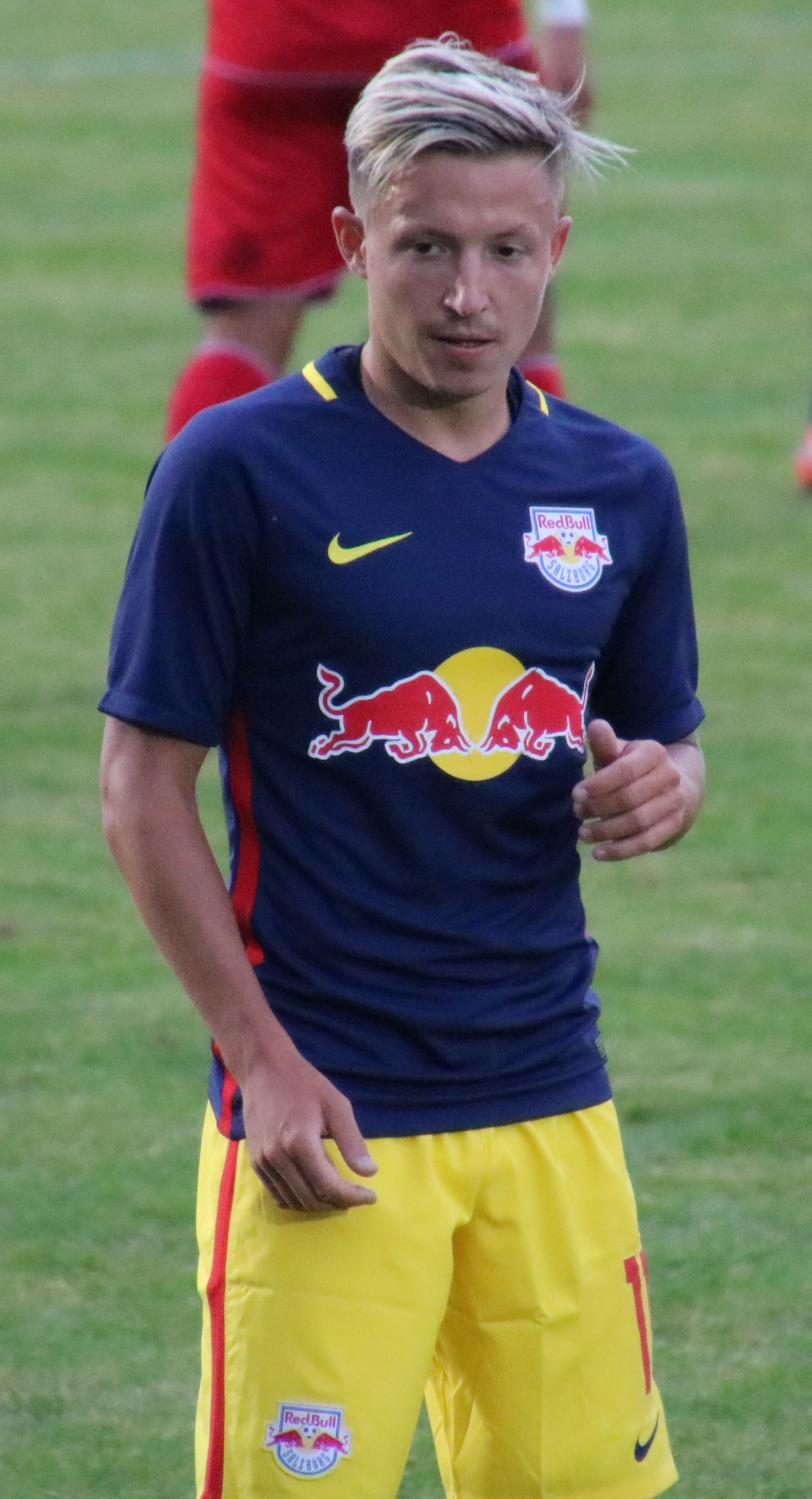 friendly match preseason